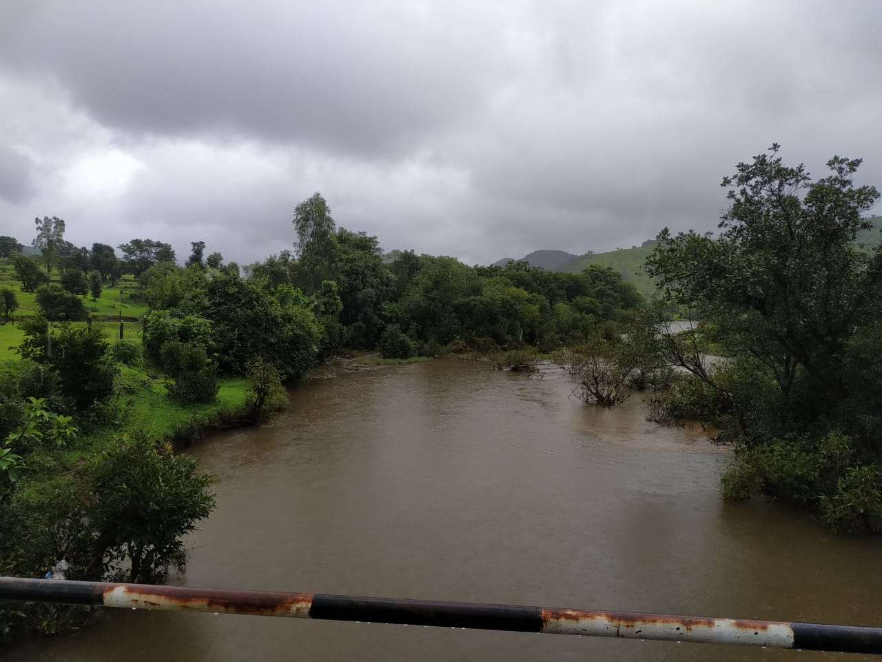 velvandi River